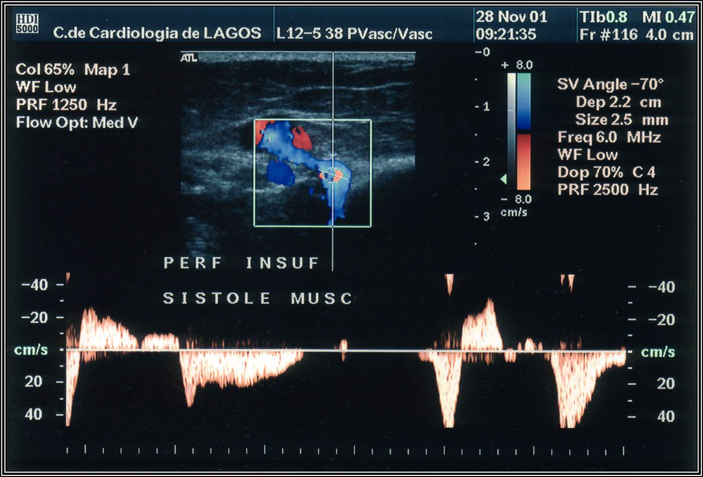 Perforator vein with valve incompetence